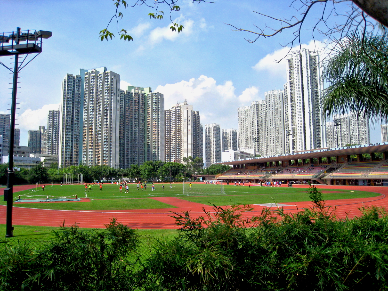 Tin Shui Wai Sports Ground 天水圍運動場